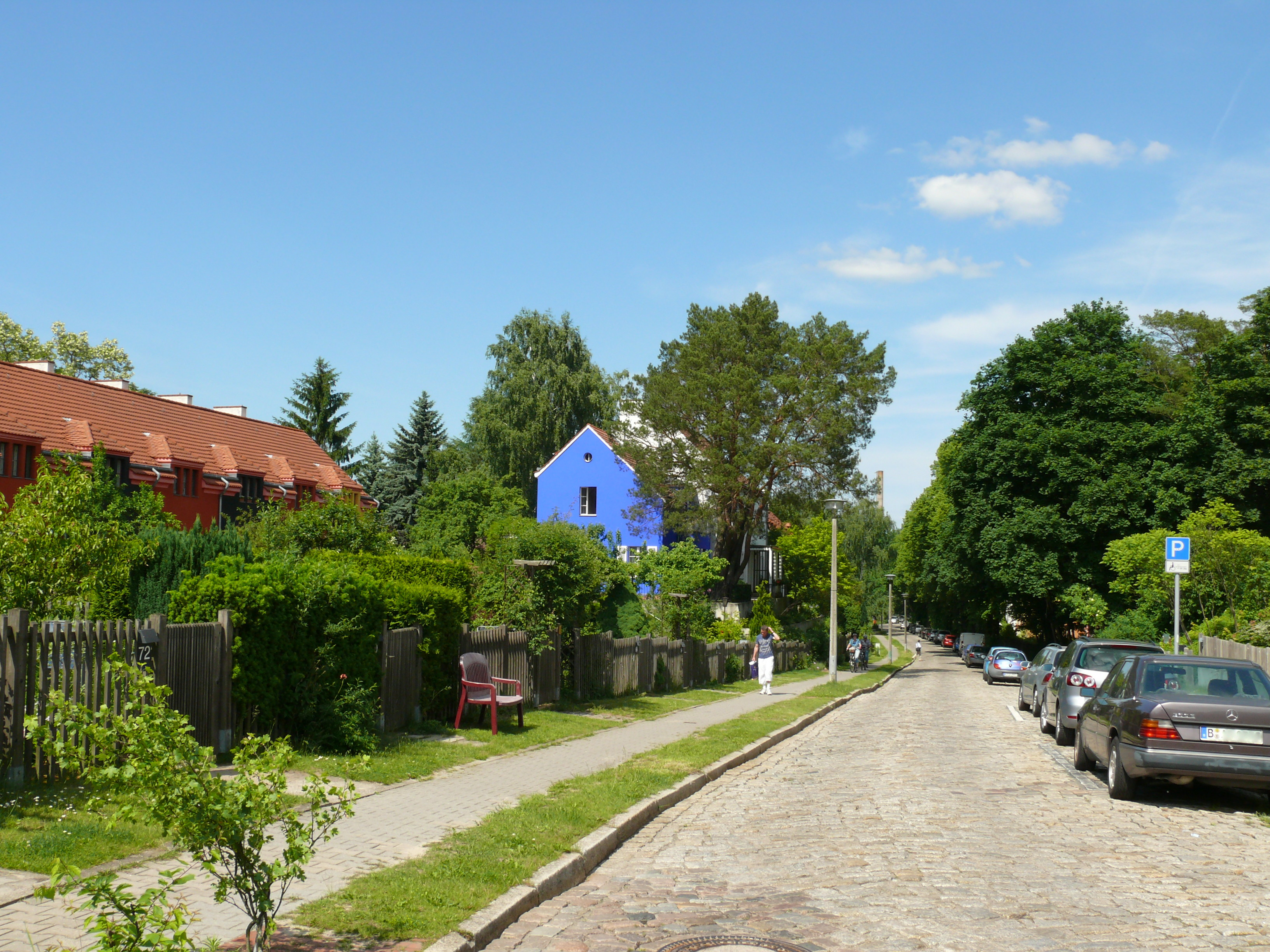 Berlin-Bohnsdorf Gartenstadtweg Tuschkastensiedlung